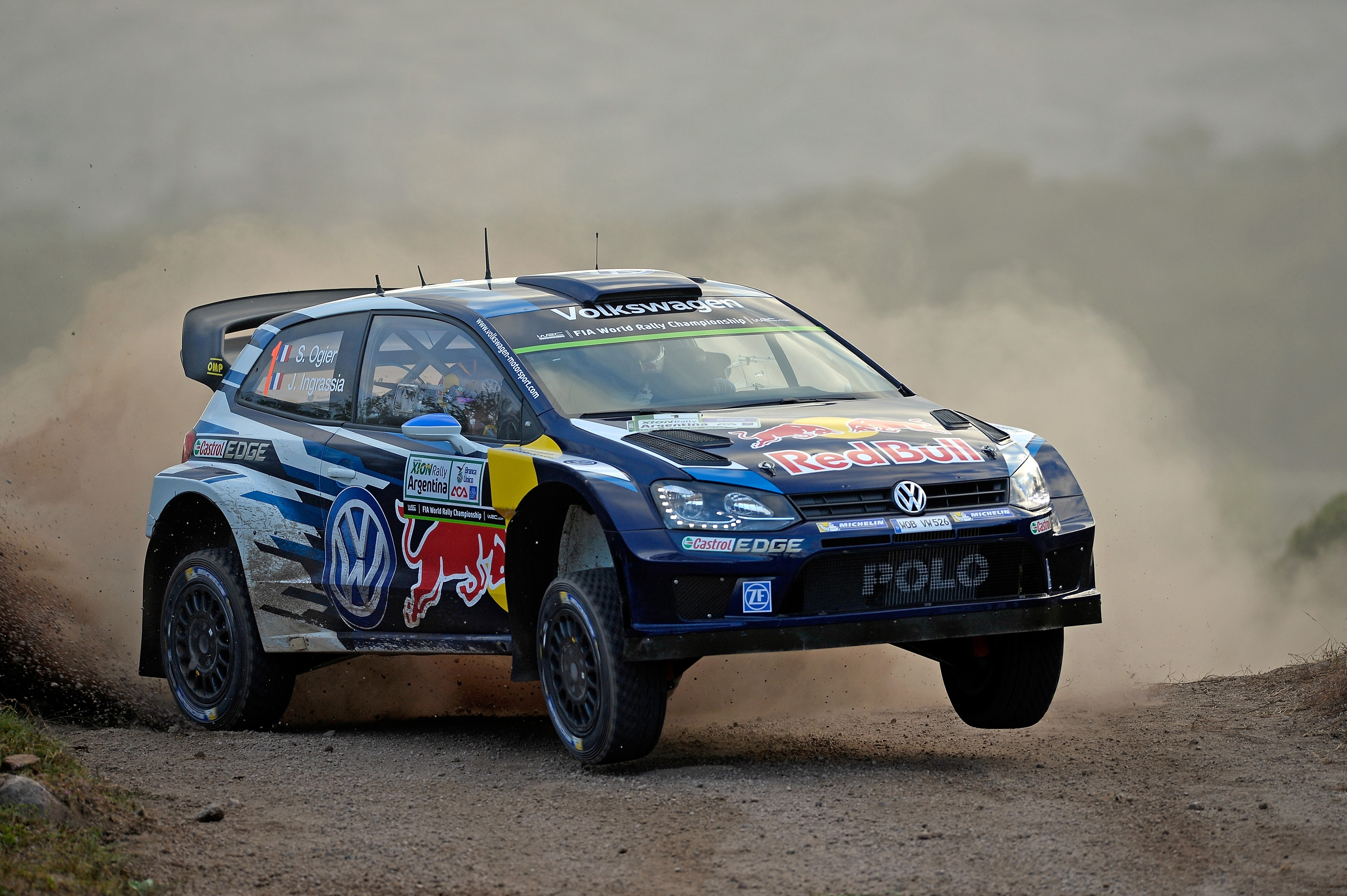 Sébastien Ogier and co-driver Julien Ingrassia in their VW Polo R WRC at the 2015 Rally Argentina.